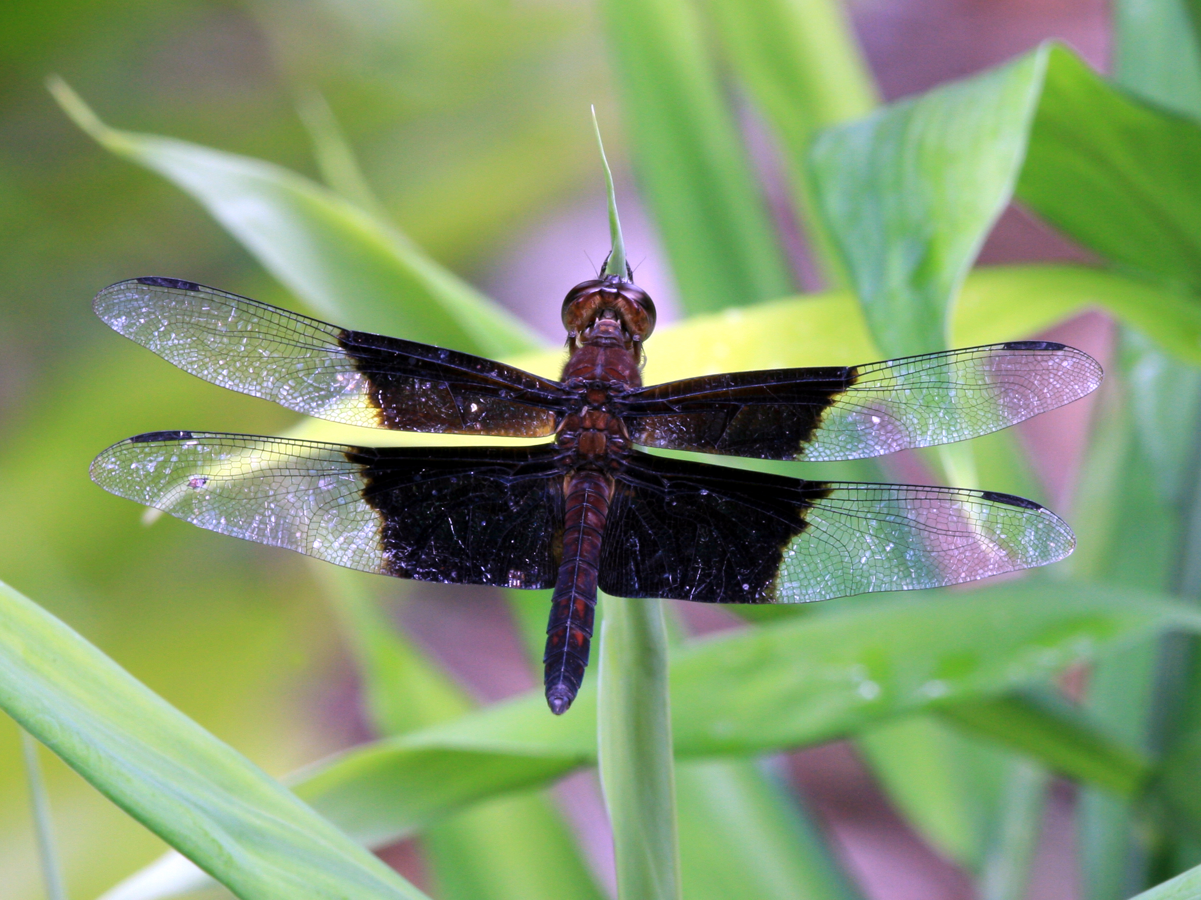 Black Knight Camacinia othello (male) at the botanic gardens Cairns, Queensland, Australia. This image has been renamed as it was originally misidentified Rhyothemis braganza